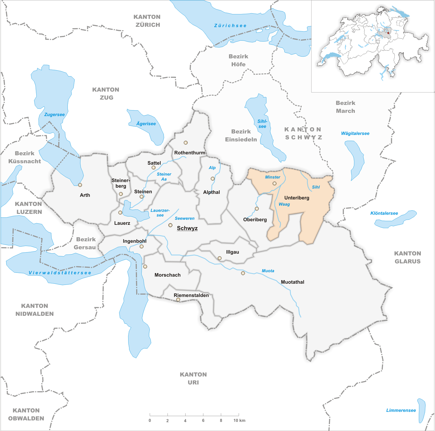 Municipality Unteriberg